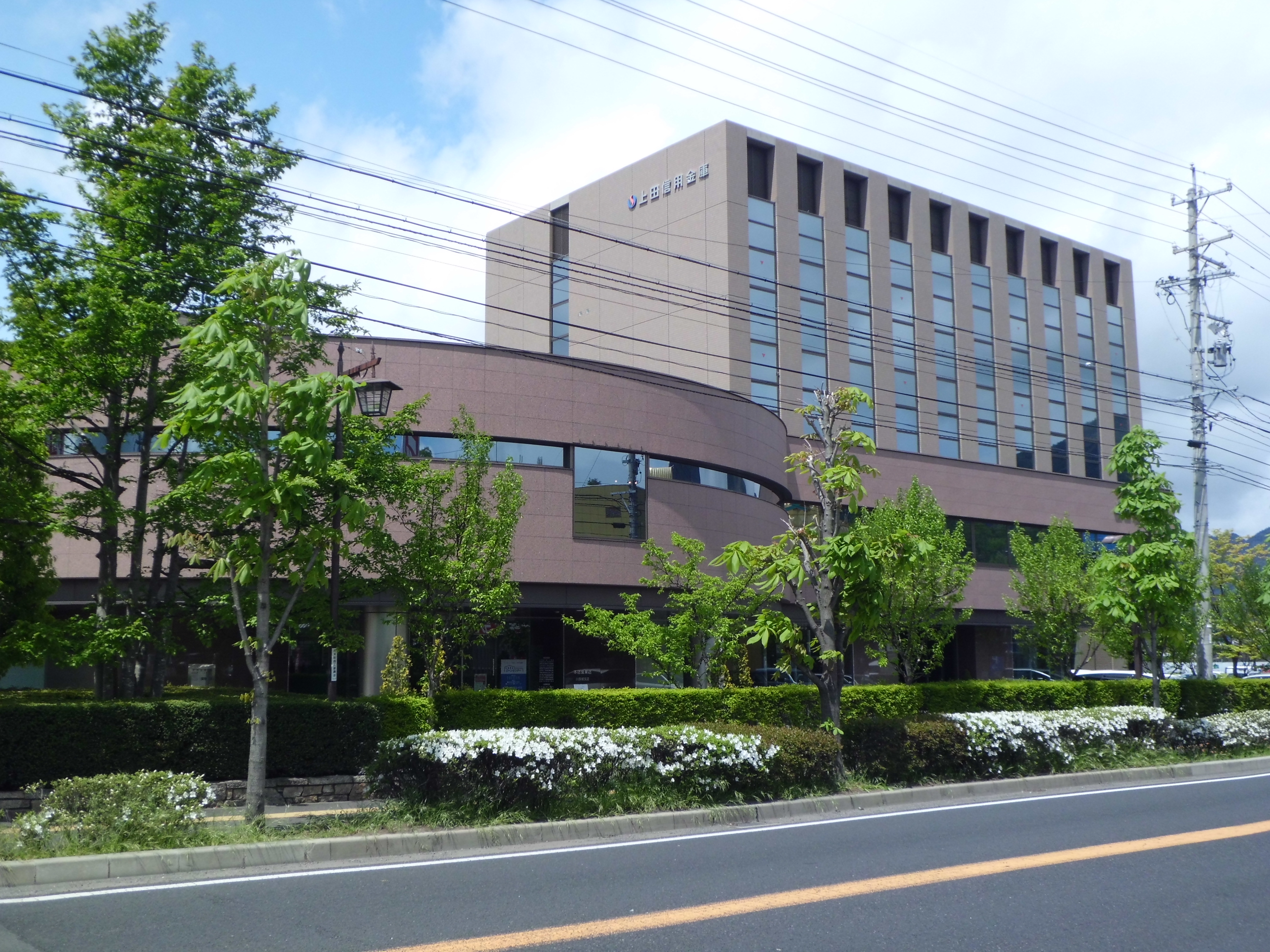 Head offfice of Ueda Shinkin Bank in Ueda city, Nagano prefecture, Japan.